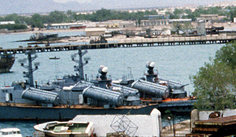 U.S. Marine Corps equipment is offloaded from the container ship SS LYRA during Exercise Eastern Wind '83, the amphibious landing phase of Exercise Bright Star '83. Two Somali navy project 205-ER type 21 missle boats (NATO code - Osa II Class fast attack craft) are visible in the upper left. The names of boats were №125 and unknown. Location: Berbera.